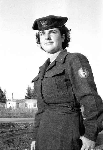 Depicted person: Esther Arditi – Israeli paramedic